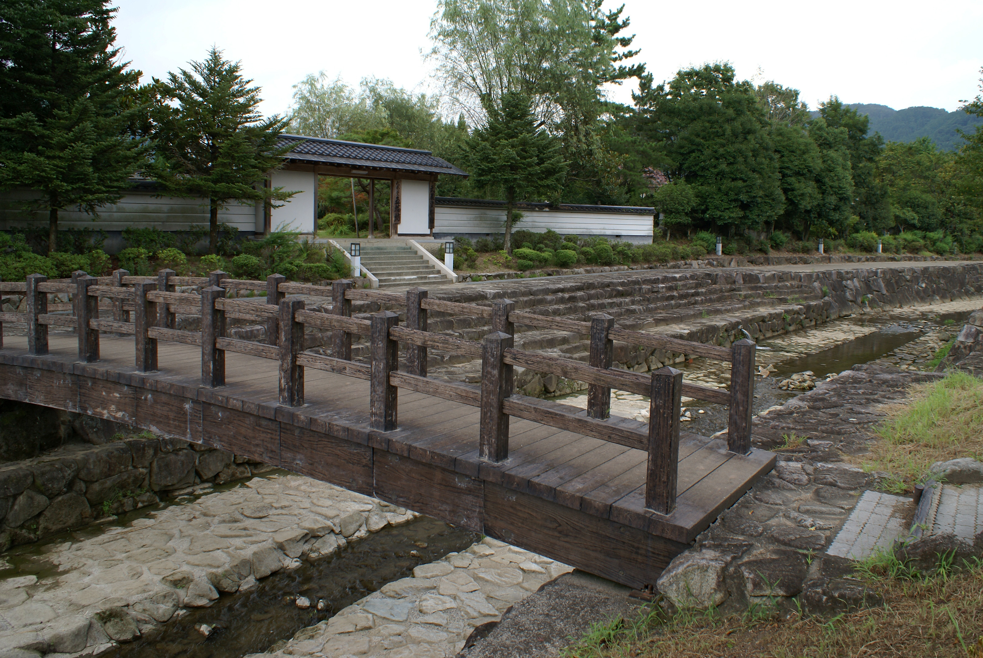 Musashi-no-sato Gorinbo of in Mimasaka, Okayama prefecture, Japan